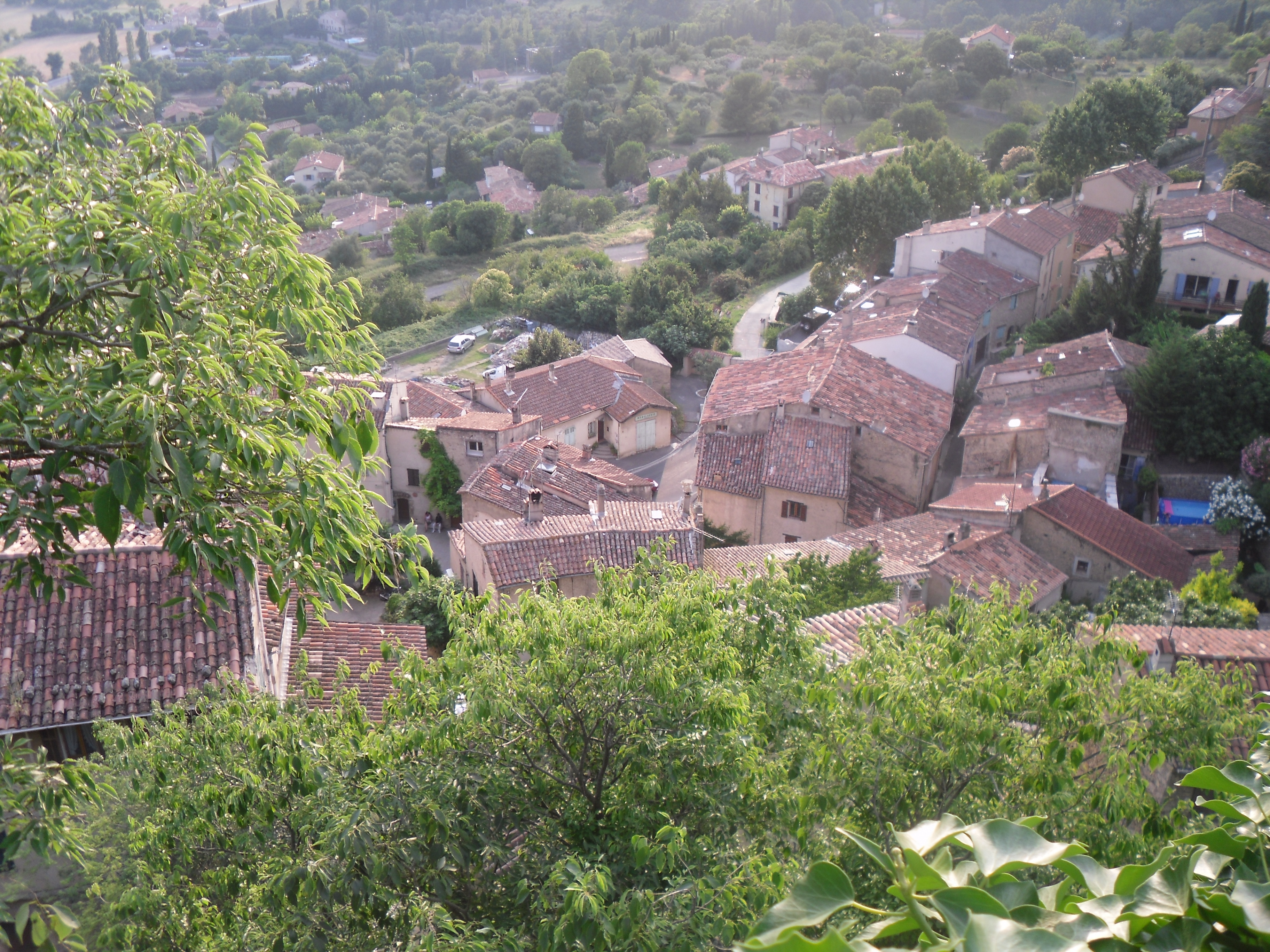 The village Fayence from above